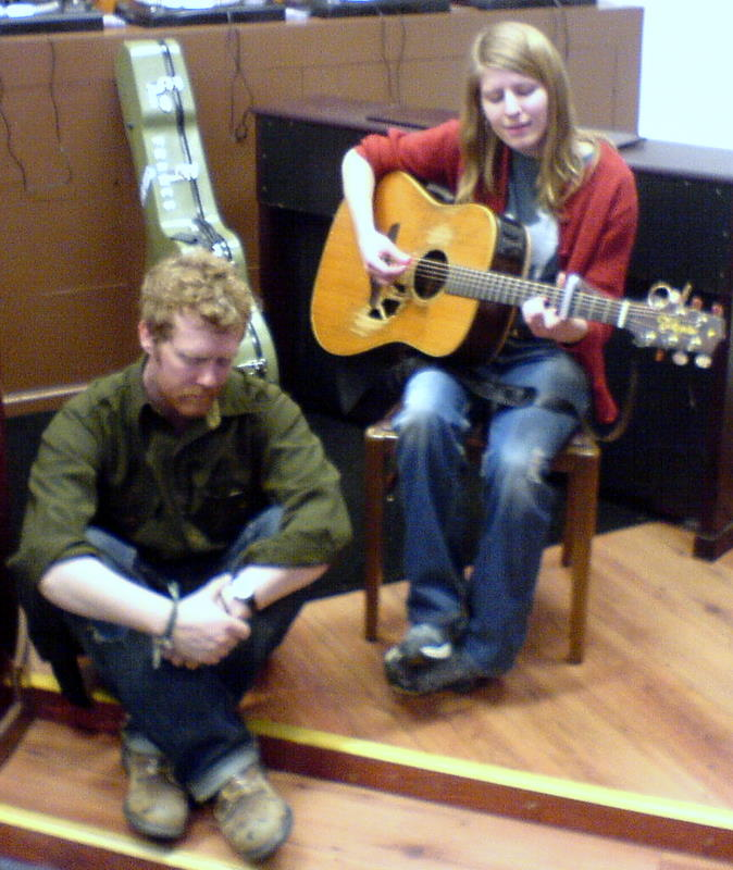 A picture taken and edited by me of Glen Hansard and Markéta Irglová during a show in Derry, Northern Ireland in April 2006.